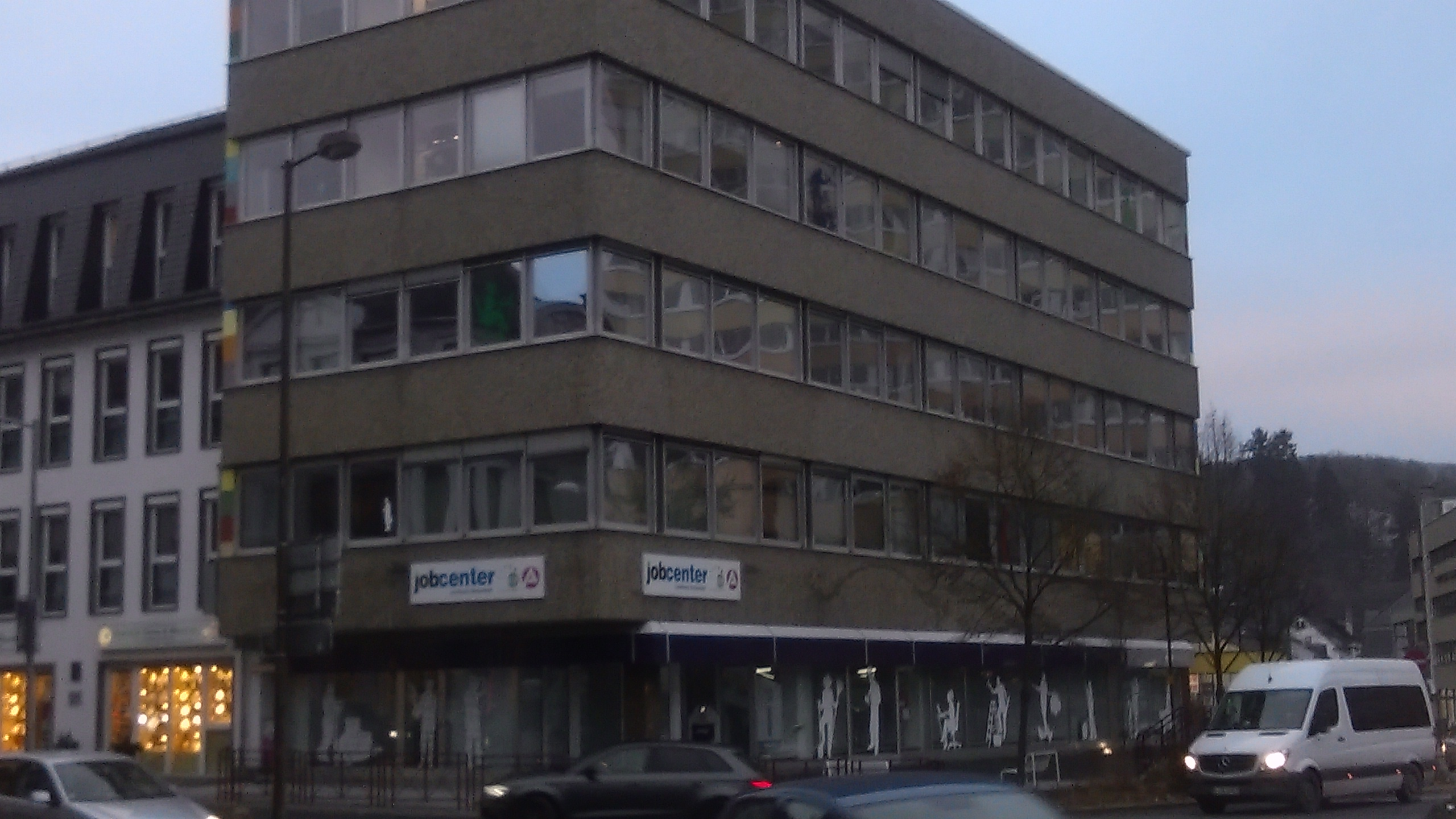 employment exchange